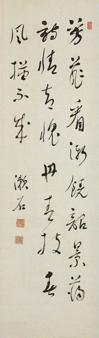 Calligraphy of Natsume Souseki